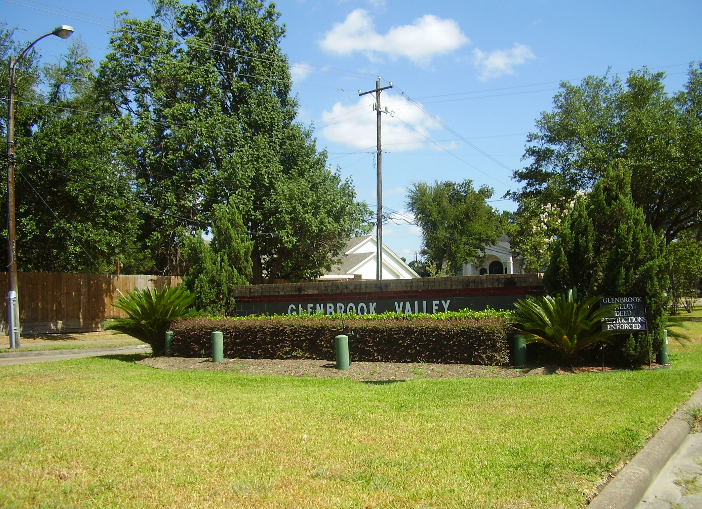 Glenbrook Valley subdivision marker